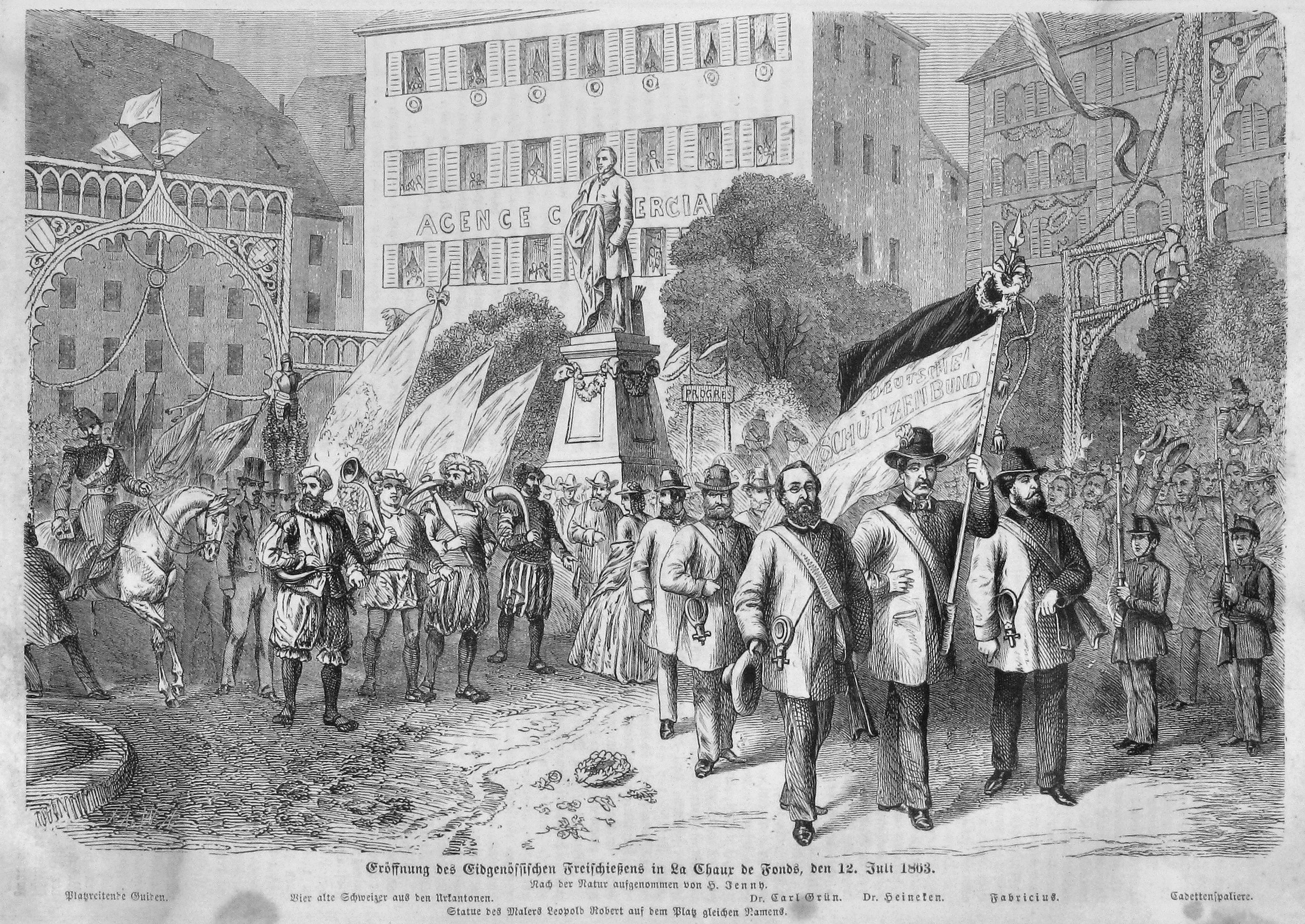 caption: "Eröffnung des Eidgenössischen Freischießens in La Chaux de Fonds, den 12. Juli 1863. Nach der Natur aufgenommen von H. Jenny. Vier alte Schweizer aus den Urcantonen. Dr. Carl Grün. Dr. Heineken. Fabricius. Statue des Malers Leopold Robert auf dem Platz gleichen Namens. Platzreitende Guiden. Cadettenspaliere."